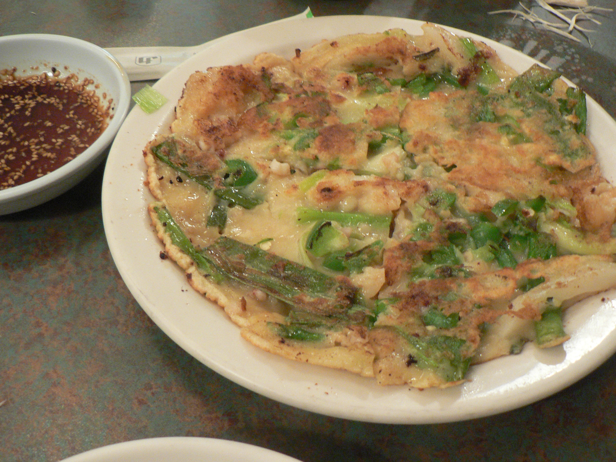 파전 (Pajeon, one of the korean style pancakes and it's main ingredient is green onions and flour.)